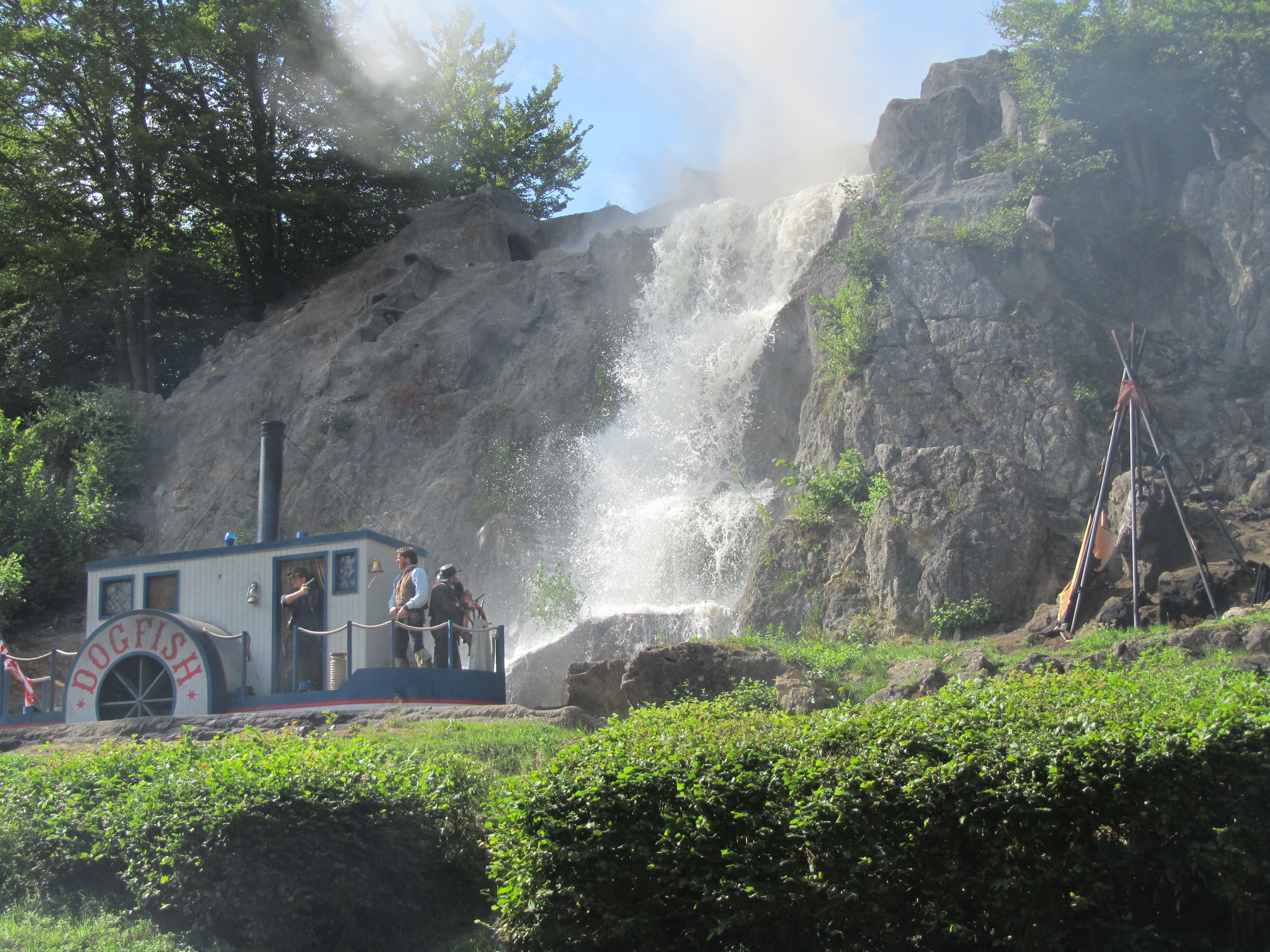 a scene with a steamboat and waterfall during the play "Der Schatz im Silbersee" at the Karl May festival in Elspe, Germany